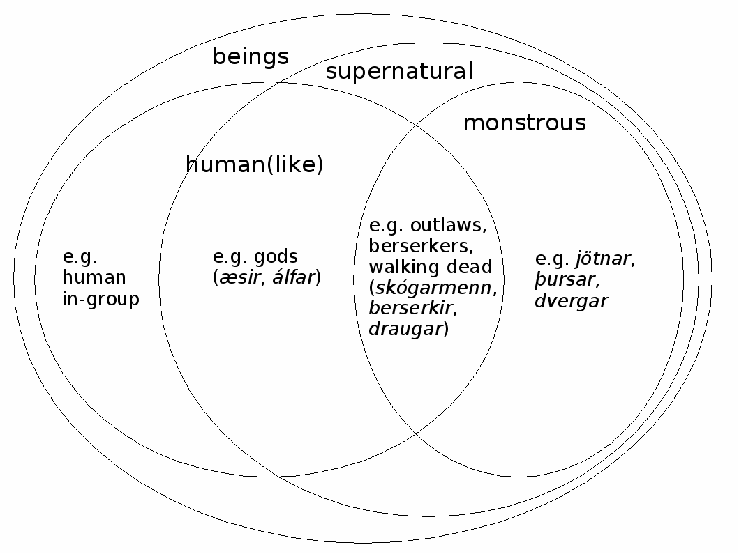 A semantic field diagram of words for sentient beings in Old Norse, originally published in Alaric Hall, ' "Þur sarriþu þursa trutin": Monster-Fighting and Medicine in Early Medieval Scandinavia', Asclepio: revista de historia de la medicina y de la ciencia, 61.1 (2009), 195-218 (p. 208, fig. 1)